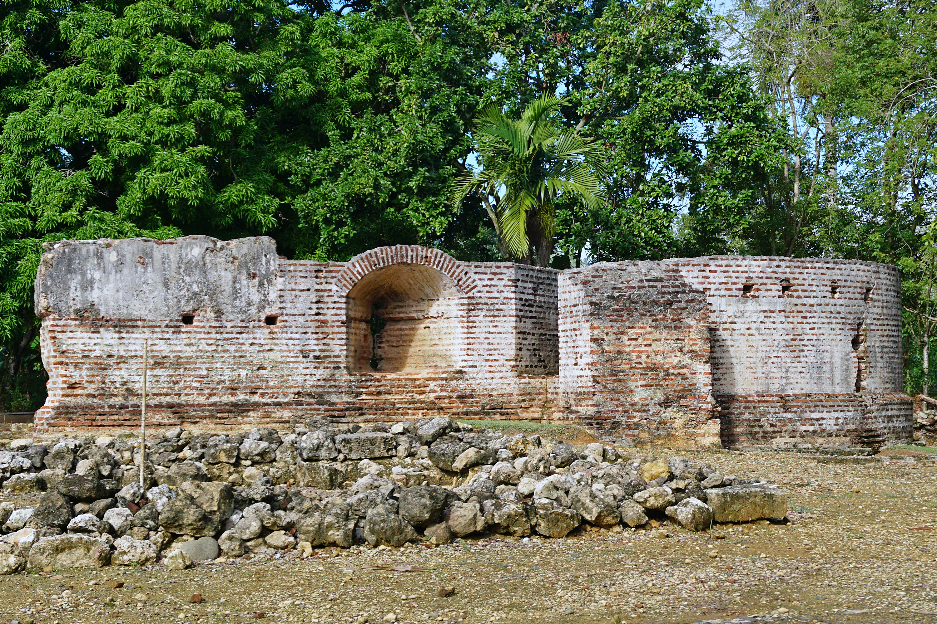 Concepción de la Vega Fort, La Vega Vieja, Dominican Republic